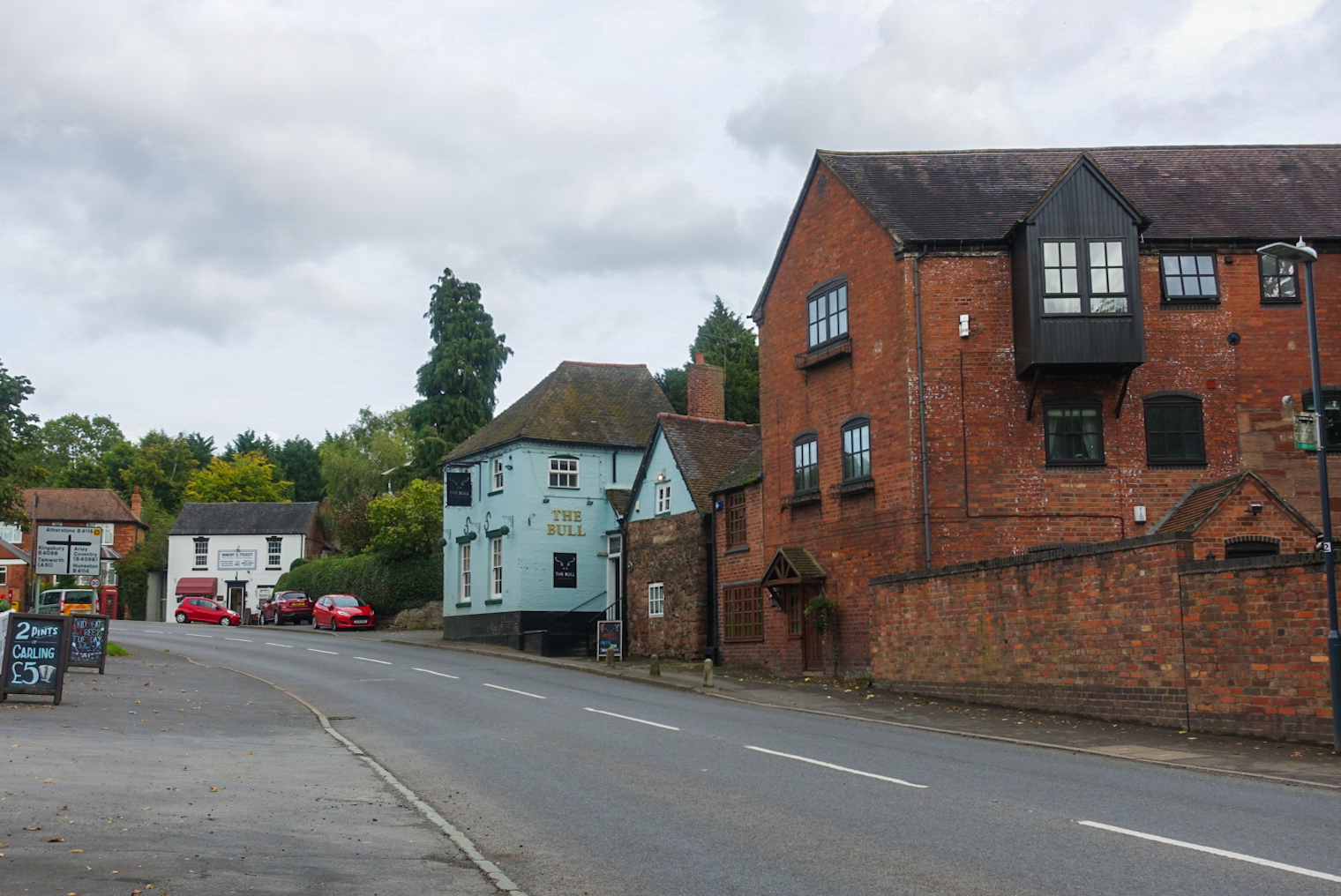 Furnace End Warwickshire September 29th 2017